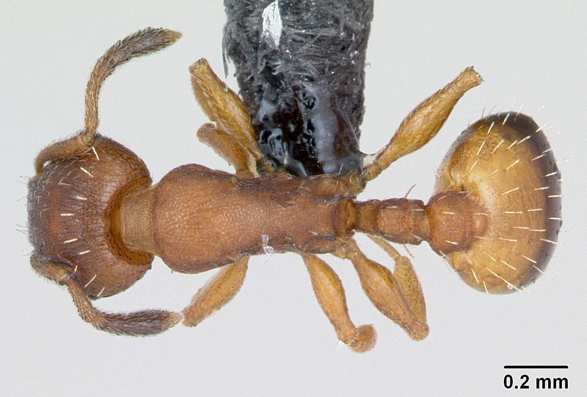 Dorsal view of ant Temnothorax unifasciatus specimen casent0173188.